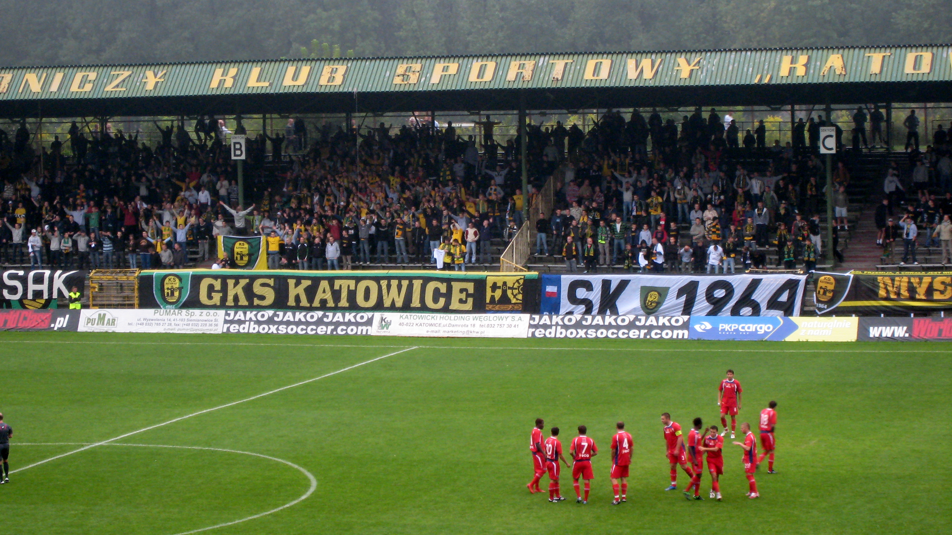 GKS Katowice fans (GKS Katowice vs. Odra Opole, 2008-08-16)